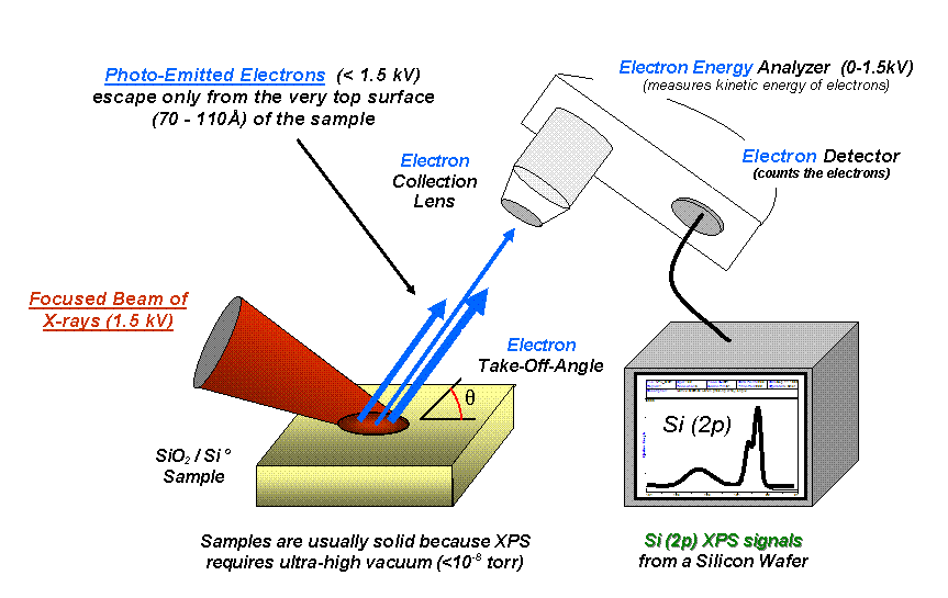 File as found in english Wikpedia File:System2.gif and in article X-ray photoelectron spectroscopy in 2009-07-18.